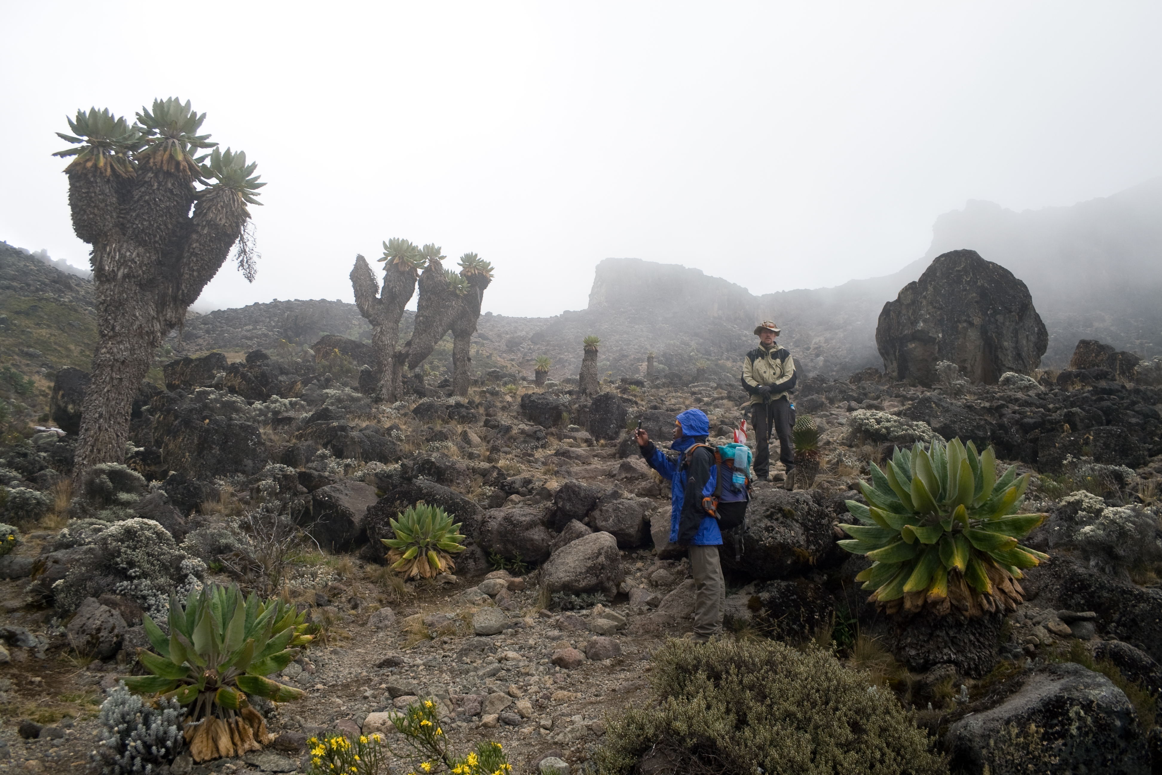 Descending through Barranco Valley towards the Barranco Campsite was a misty and humid walk, but quite charming with its vegetation where especially the big Giant Tree Groundsels was very fascinating. Even our guide, who has probably done the walk a hundred times before, took pictures with his mobile (okay, maybe it was a new mobile...)